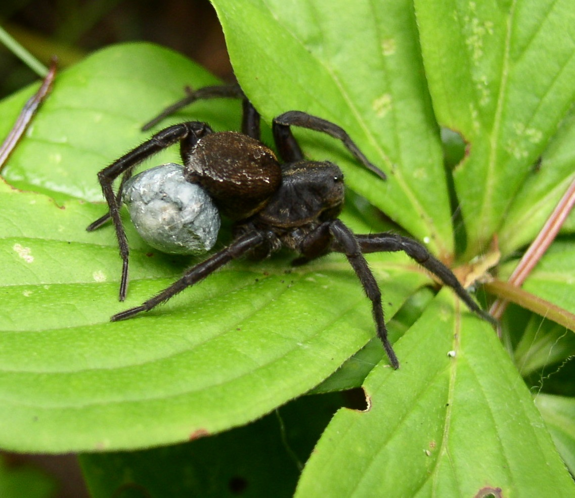 Wolf spider, Arctosa raptor, female with egg sac. Isle Royale, Houghton County, Michigan, USA.